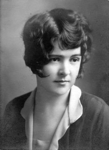 Helena Gutteridge in 1911, Picture from City of Vancouver Archive